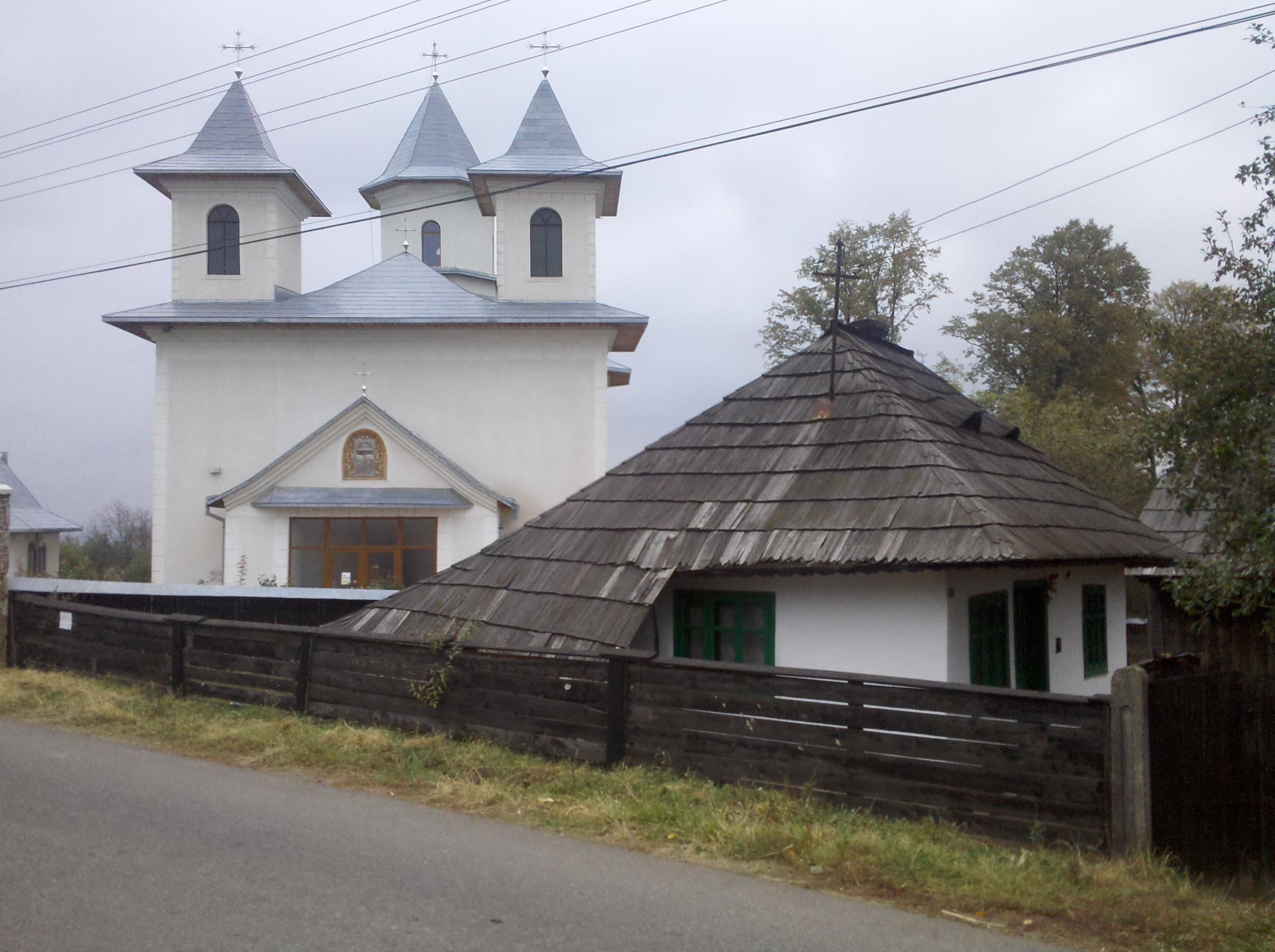 The new Orthodox church and old house in Humoreni village, Comăneşti commune, Suceava County.